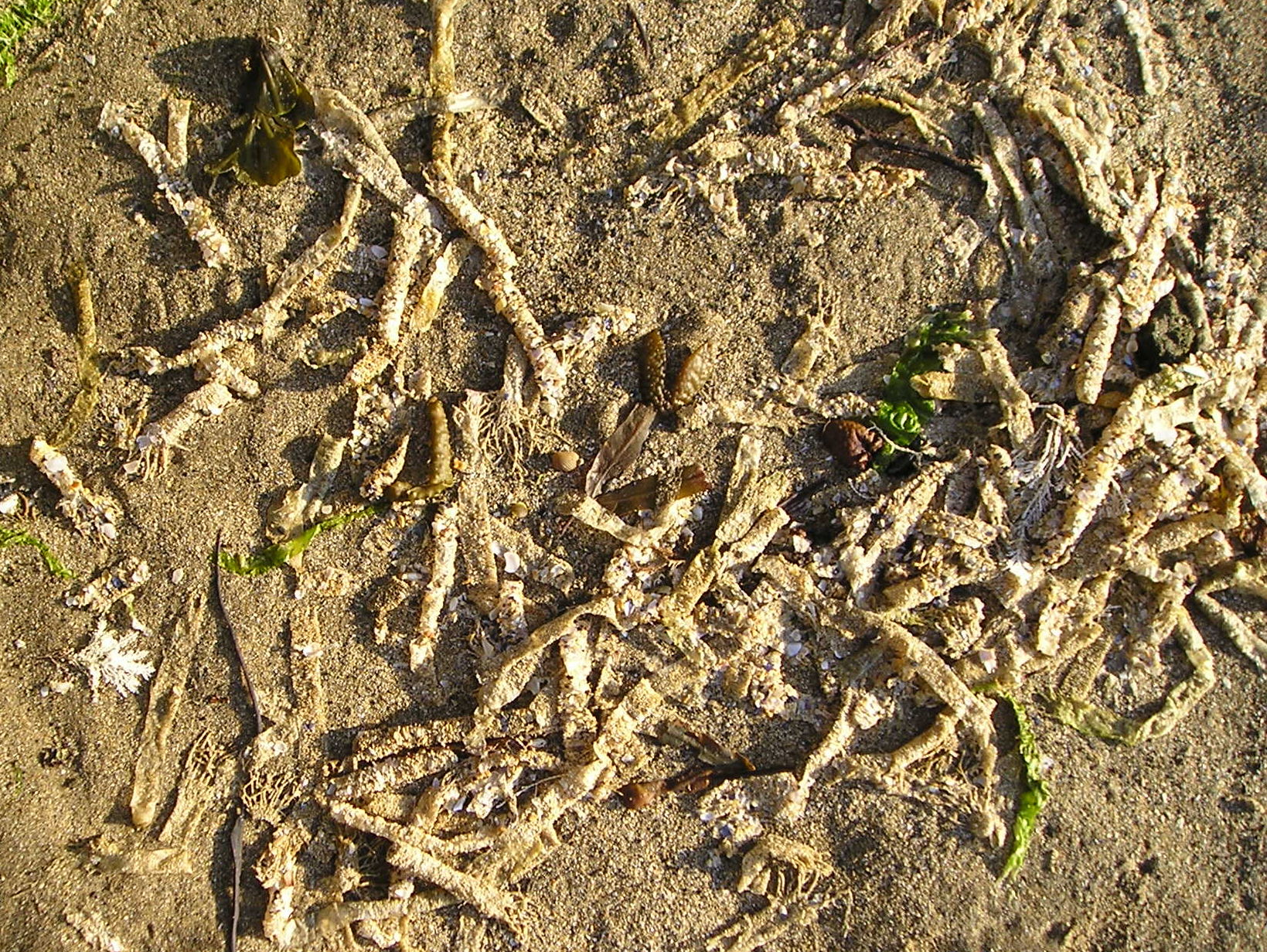 Tubes of Lanice conchilega deposited by the receding tide, Pembrokeshire.